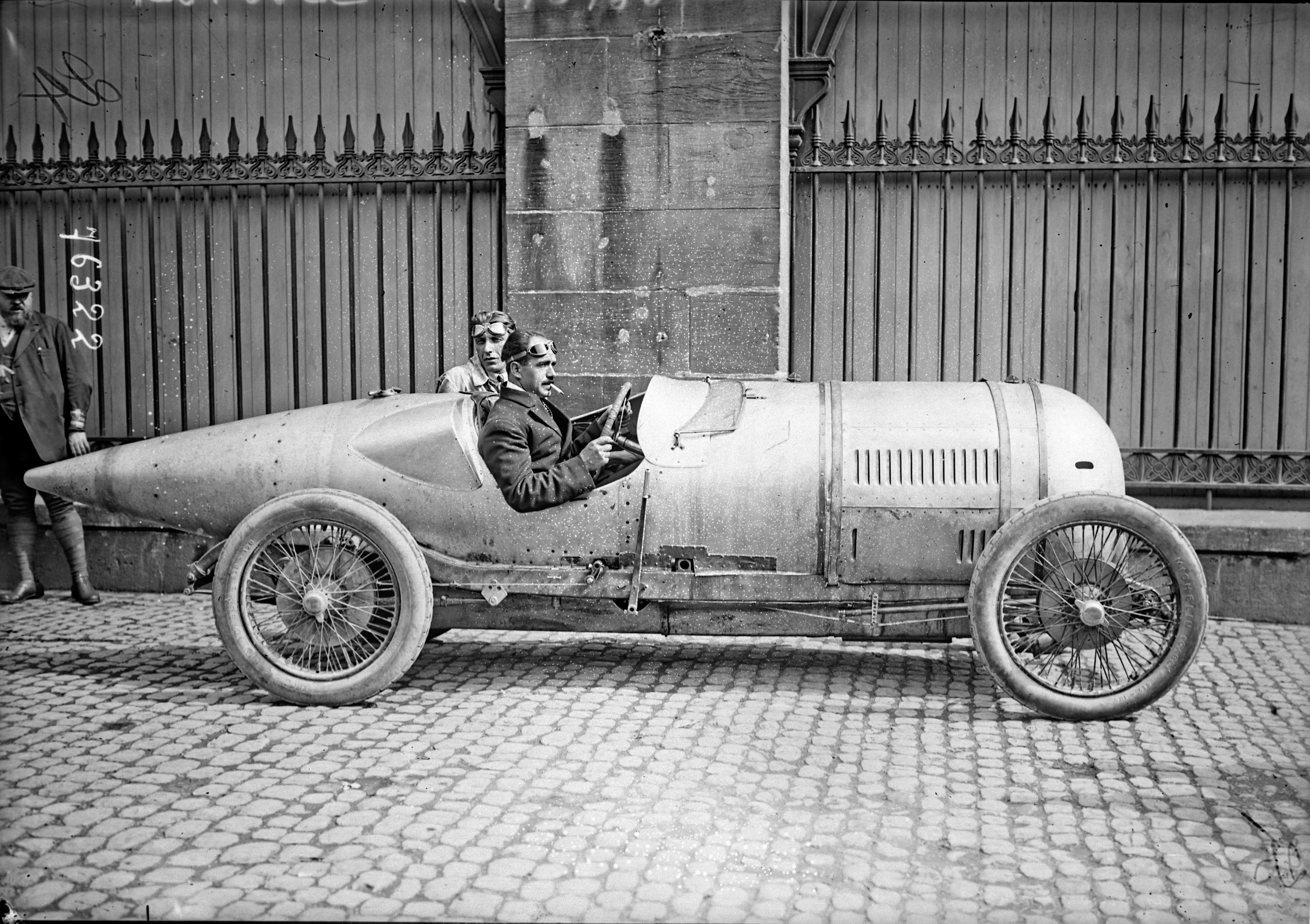 Giulio Foresti at the 1922 French Grand Prix